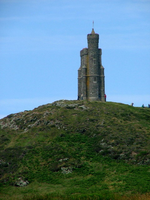 Milner's Tower, Bradda Head. On Bradda Headland overlooking Port Erin and its bay is Milner's Tower. Built in 1871 by the inhabitants of Port Erin in honour of William Milner, a Liverpool safemaker (hence the shape of the tower in the form of a lock).